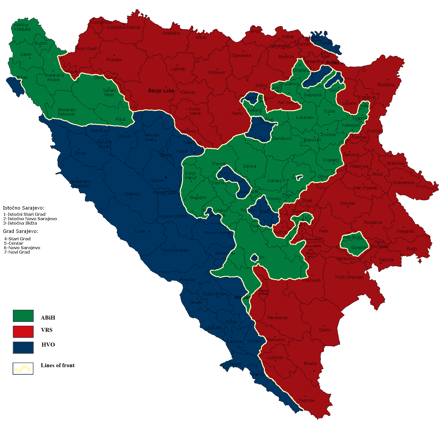 Lines of control before Dayton agreement